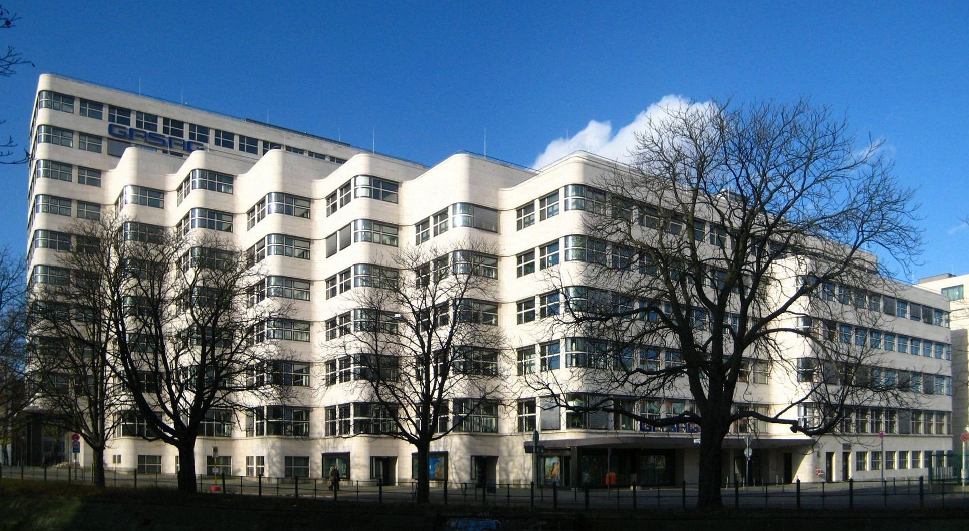 The Shell House at Reichpietschufer No. 60 in Berlin-Tiergarten, built 1930-1932 to a design by the architect Emil Fahrenkamp. The building has been designated as a historic landmark.